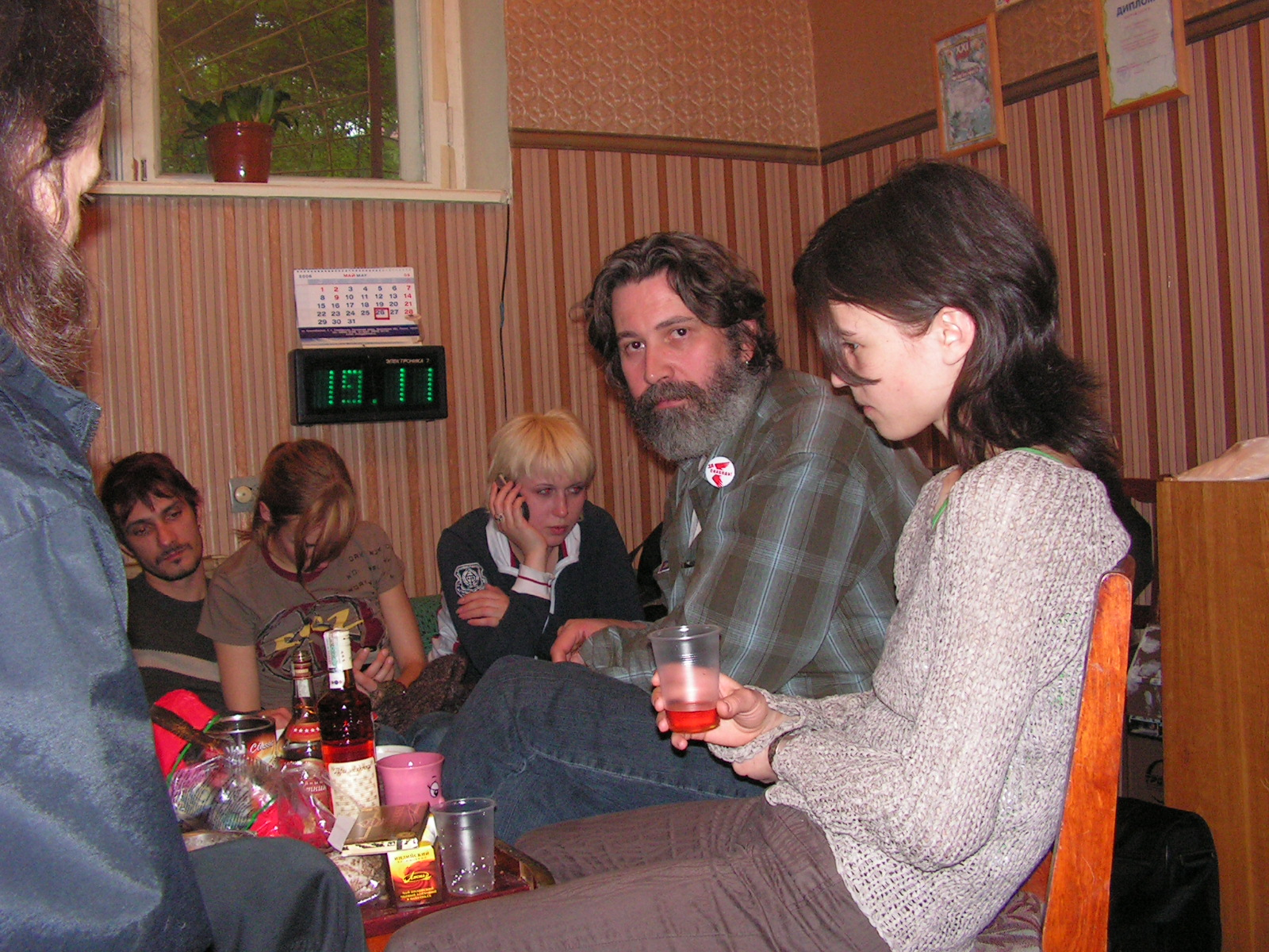 Informal communication of participants of the festival "May readings" after the main program. From left to right: Director and artistic Director of the "Osobnyak" theatre (St. Petersburg) Alexey Slyusarchuk, playwright Yuri Klavdiev, playwright and theatre critic Anastasia Brauer, actress Alena Starostina, playwright Vadim Levanov, poet Dina Gatina. Utility room theatrical centre "Golosova 20", Tsentralny district, Togliatti, Russia. 28 may 2006.